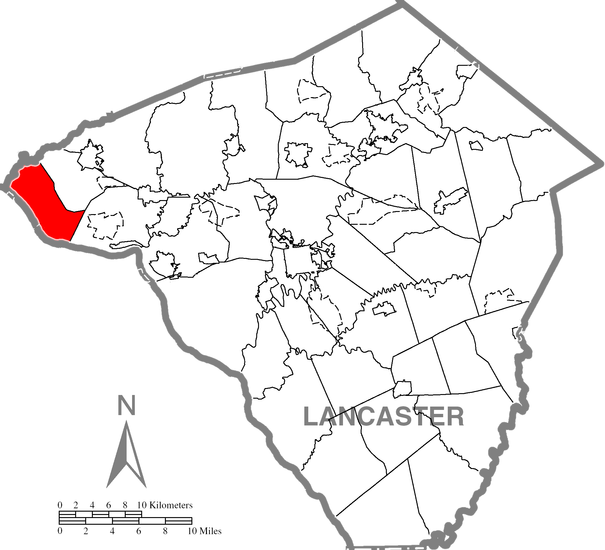 Highlighted Lancaster County map of Conoy Township.